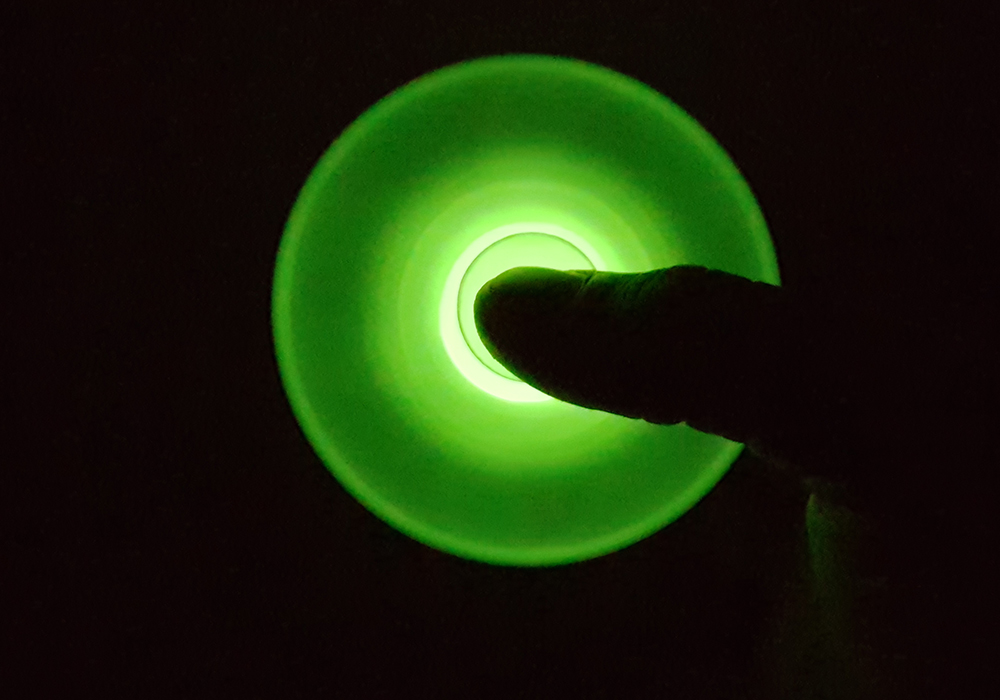 fidget spinner glowing green in the darkness